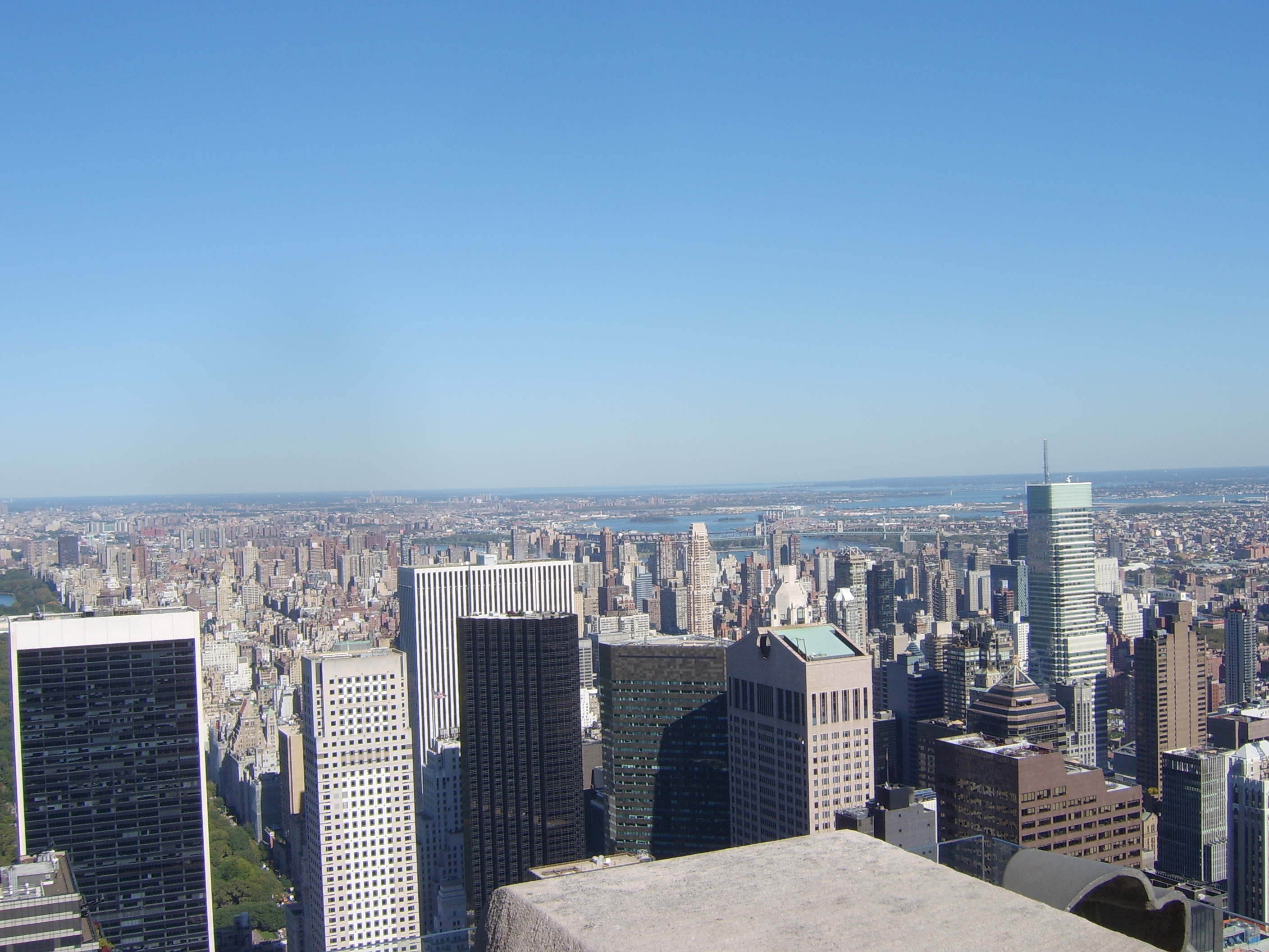 Category:Manhattan, New York City